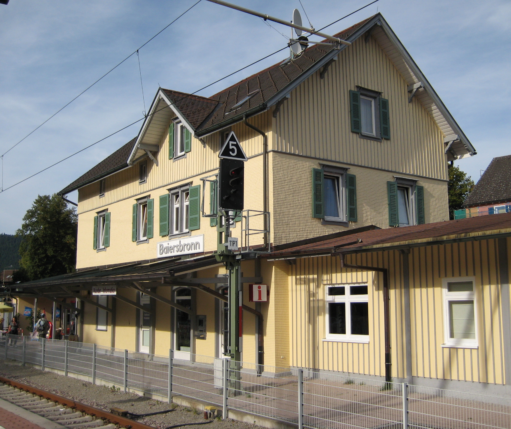 Station in Baiersbronn, Germany